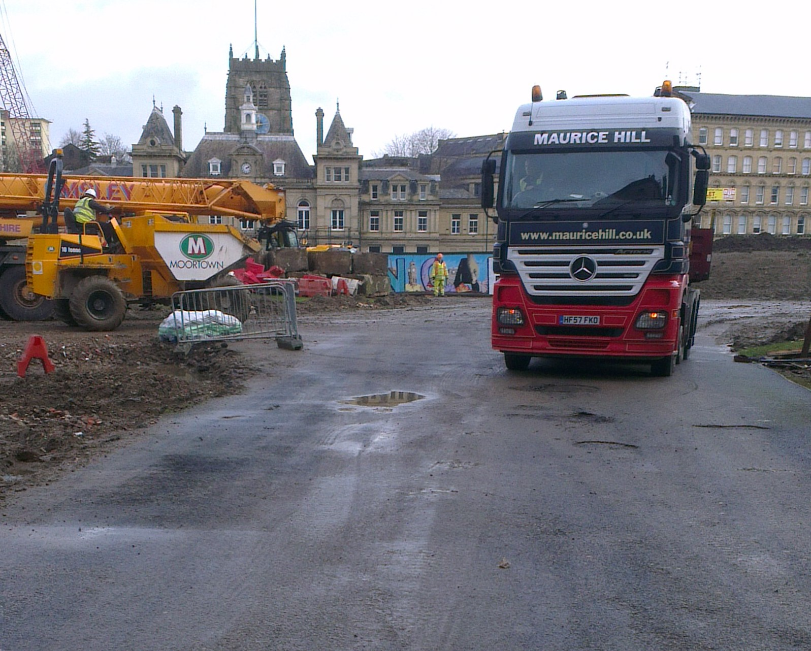 The ground was cleared for the Westfield Bradford development between 2004 and 2006; building work begin in 2007, but halted in 2009. The work began again in January 2014, beginning by demolishing the temporary urban park which had occupied part of the site since 2014.